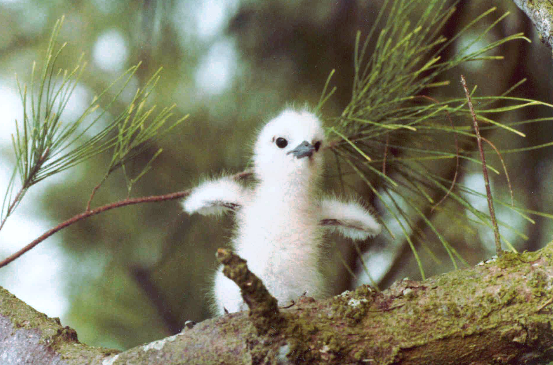 Fairy or white tern baby photographed on Midway Island early 1980's, from scan. These terns make no nest, the babies have large grasping feet to cling to the area they were hatched.